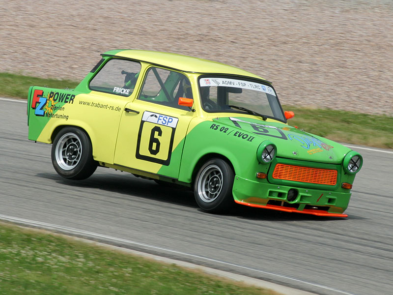 Image shows a Trabant RS02, driven by Martin Fricke on Sachsenring Circuit.